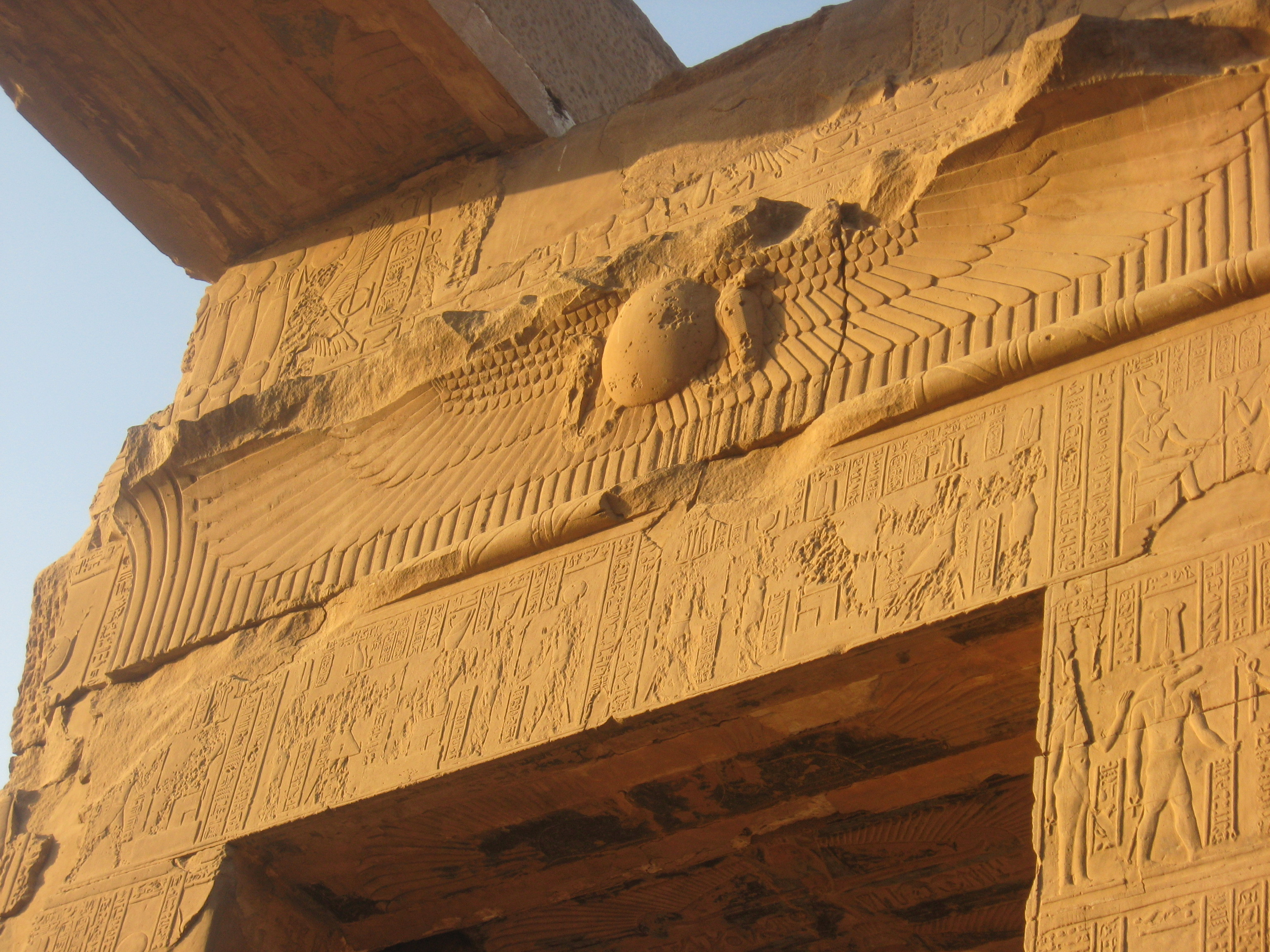 Kom Ombo Temple, Egypt